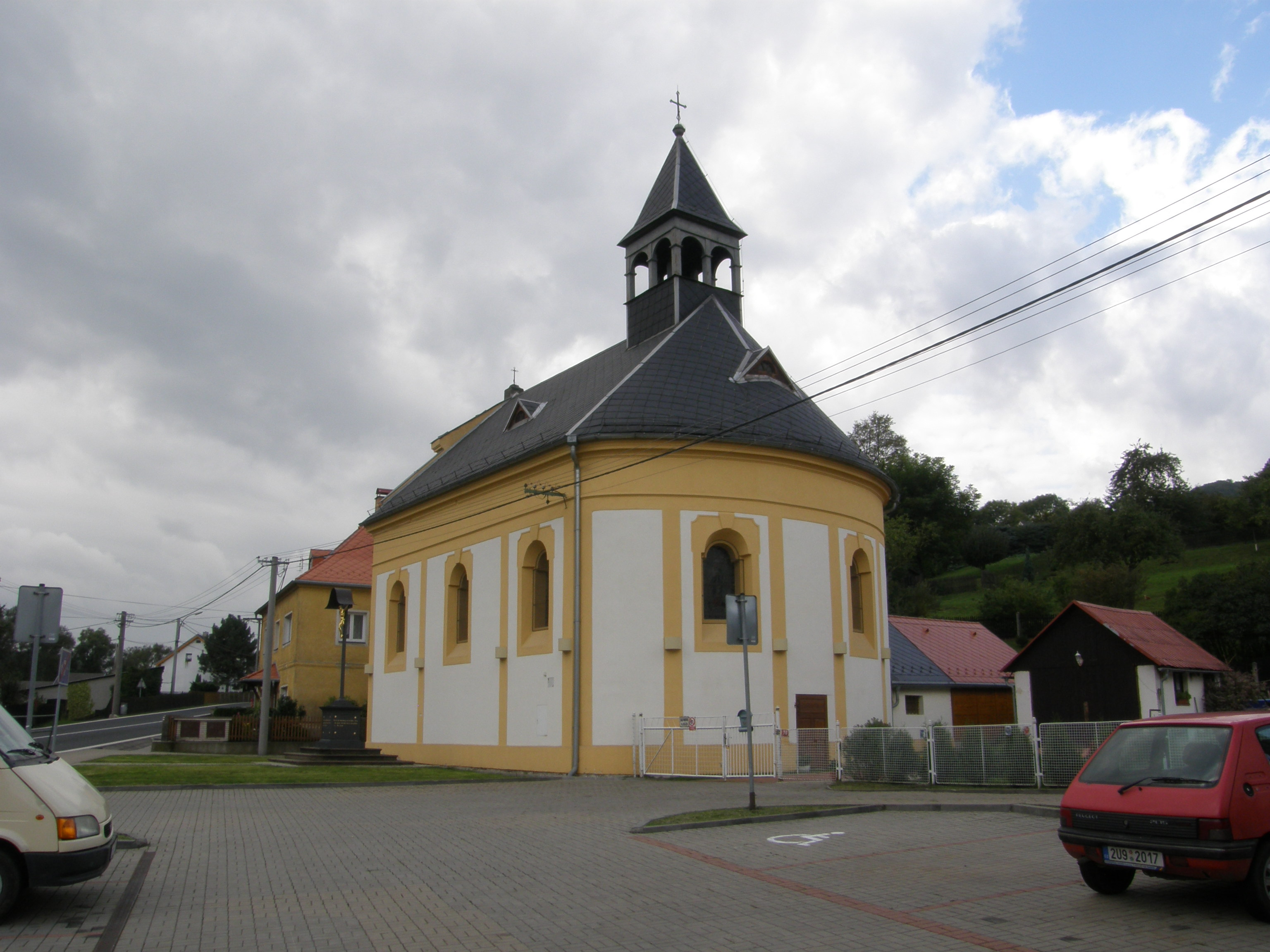 Church in the center of Stráž nad Ohří